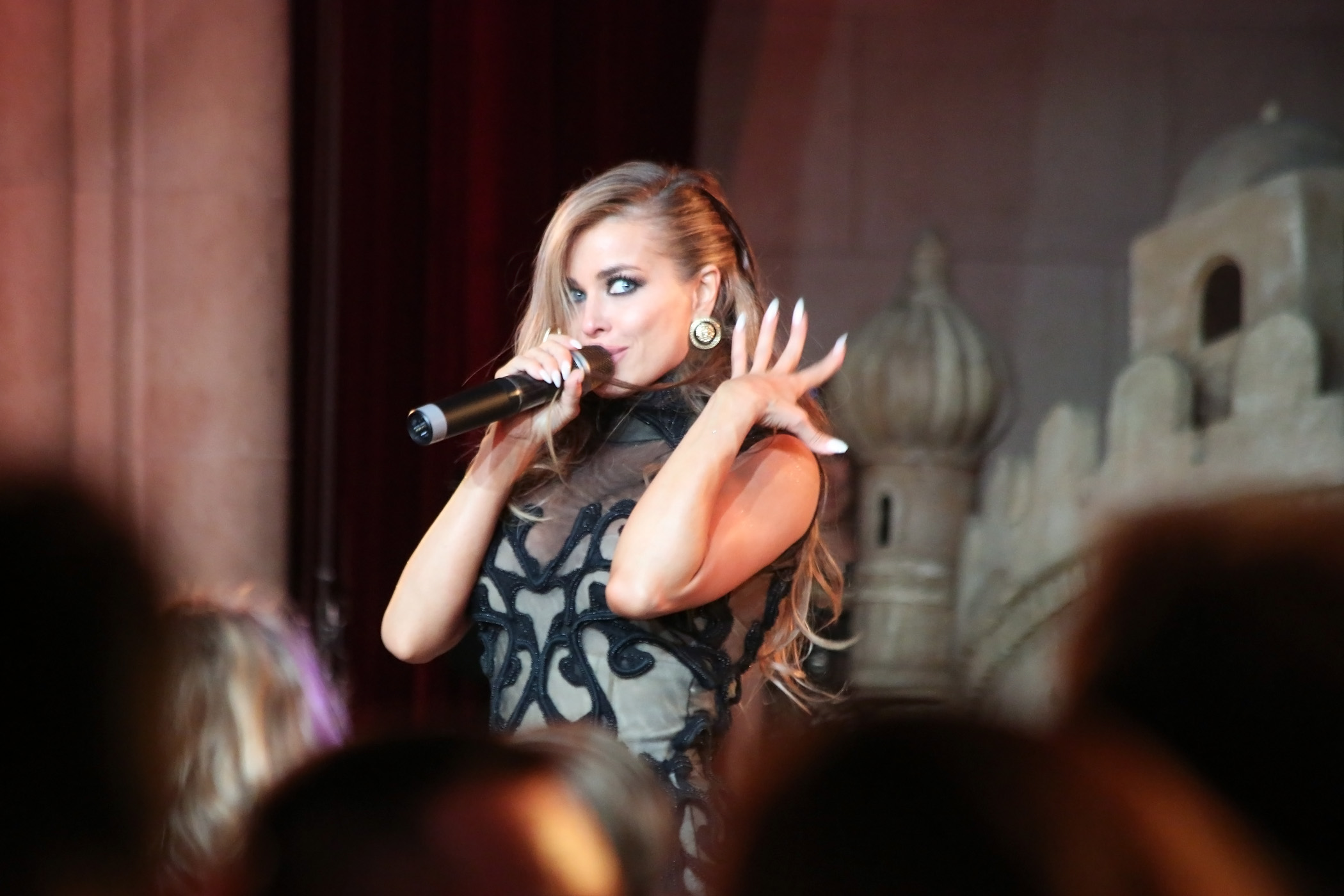 Carmen Electra at Life Ball 2013 at the city hall of Vienna, Vienna, Austria)